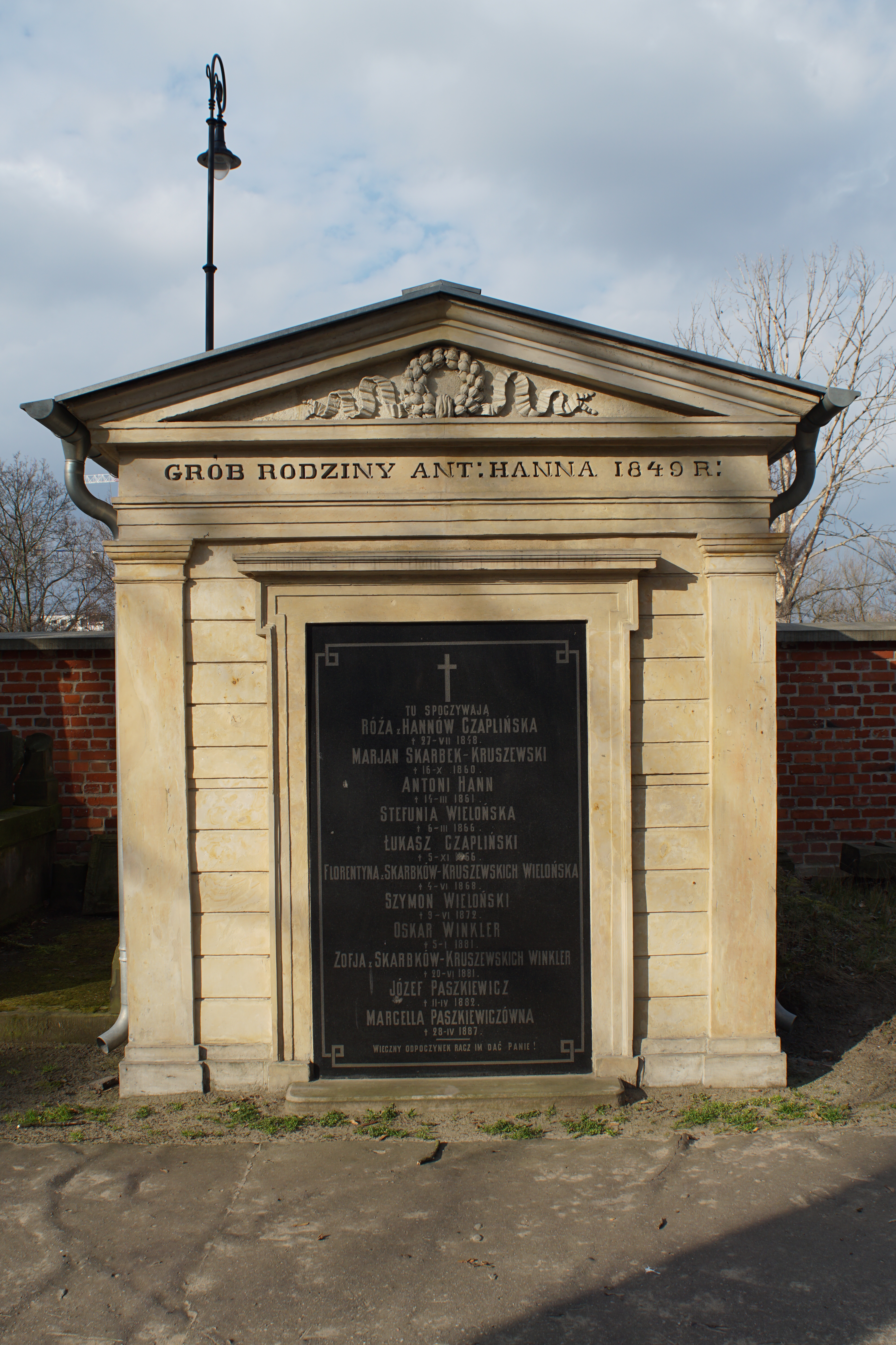 The grave of Antoni Hann at the Powązki Cemetery (section Under the wall 1, row 1, grave 80, 81)